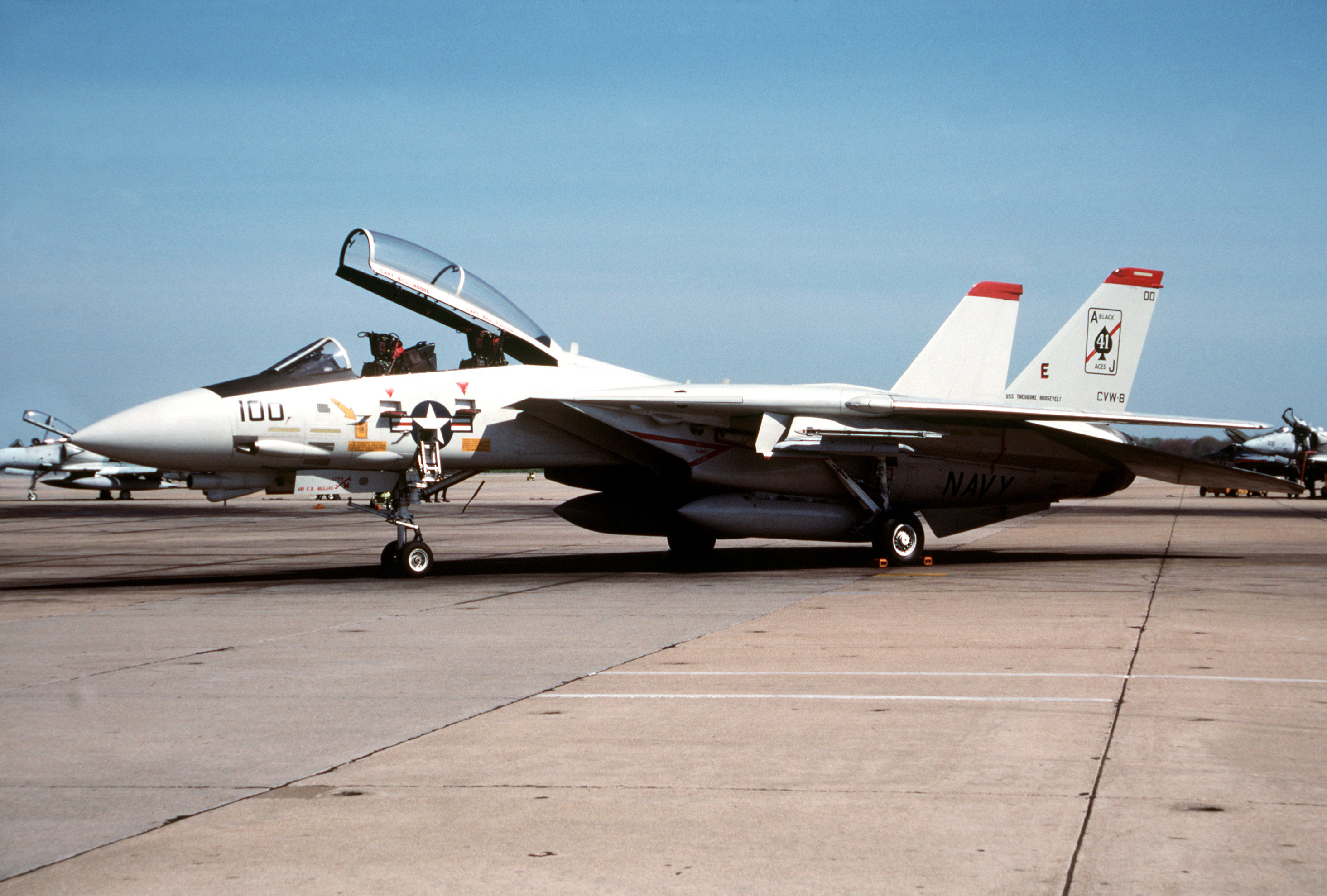 A left front view of a Fighter Squadron 41 (VF-41) F-14A Tomcat aircraft parked on the flight line. This particular aircraft is assigned to the commander of Carrier Air Wing 8 (CVW-8), the air wing assigned to the nuclear-powered aircraft carrier USS THEODORE ROOSEVELT (CV 71).Location: NAVAL AIR STATION, OCEANA, VIRGINIA (VA) UNITED STATES OF AMERICA (USA)